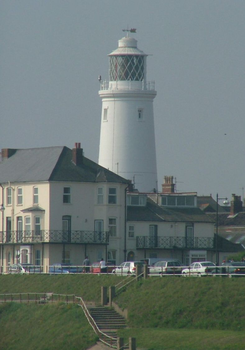 The lighthouse at Southwold, Suffolk